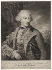 Portrait of Hugh Percy, 2nd Duke of Northumberland (1742-1817)